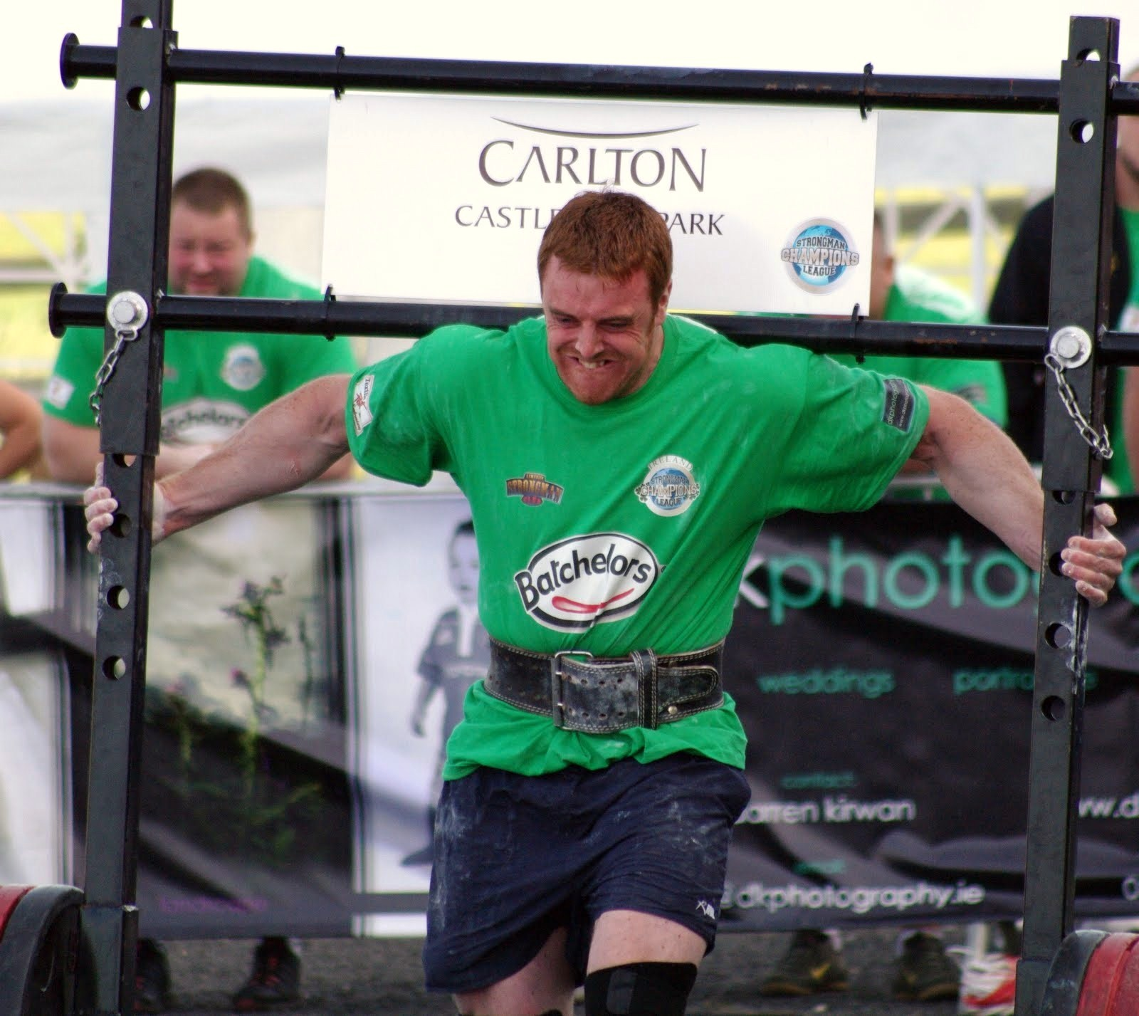 James Fennelly (a strength athlete from the Republic of Ireland) at the Yoke Walk.